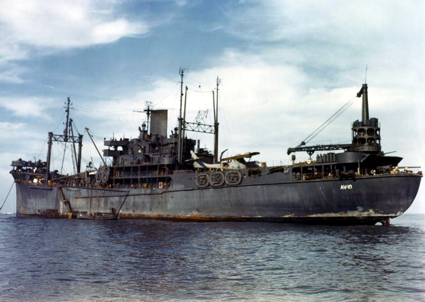 The U.S. Navy seaplane tender USS Chandeleur (AV-10) at Apia, Samoa, on 20 April 1943. Note the disassembled Consilidated PBY-5 Catalina on deck.